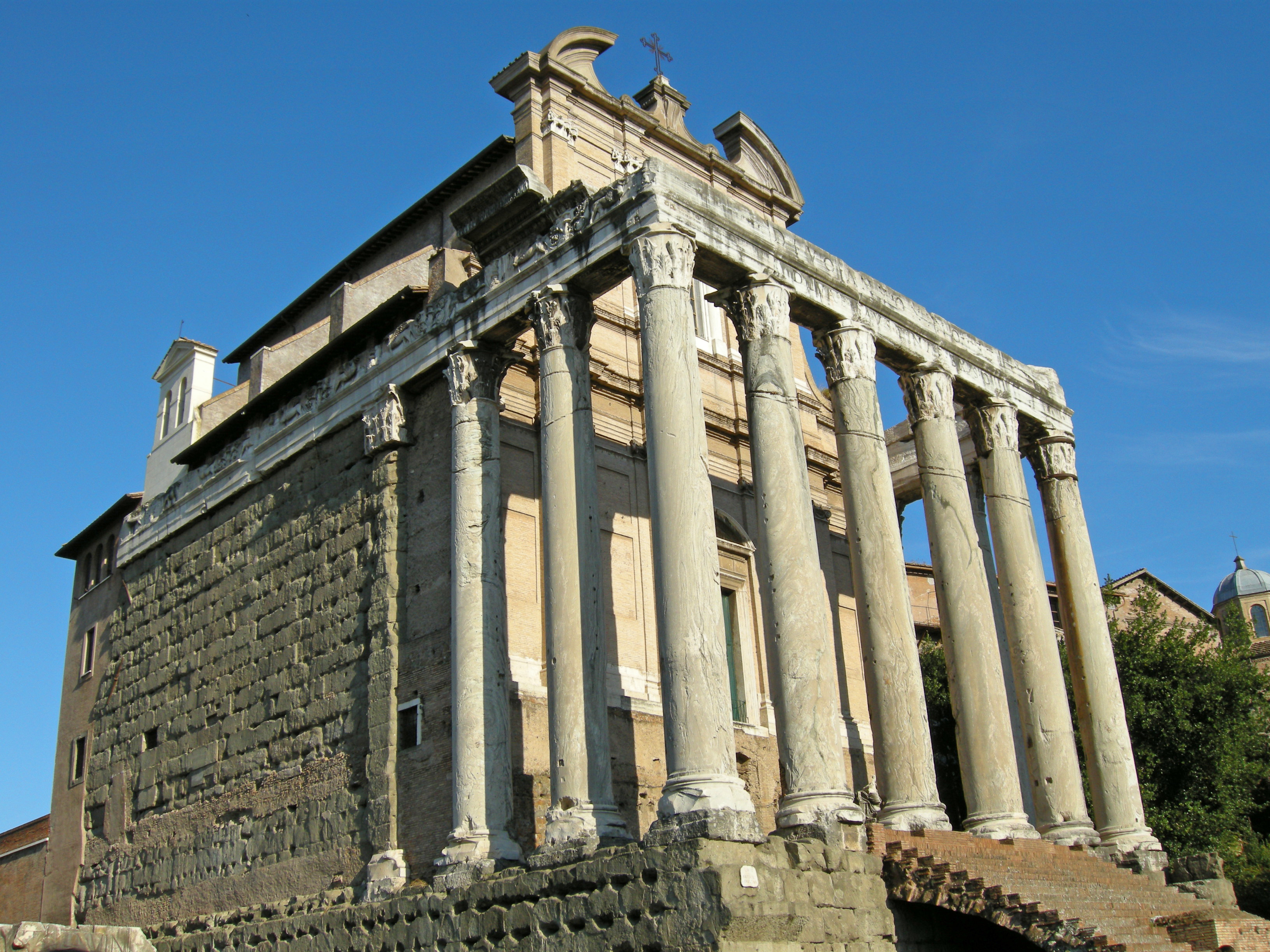 front view of Temple of Antoninus and Faustina